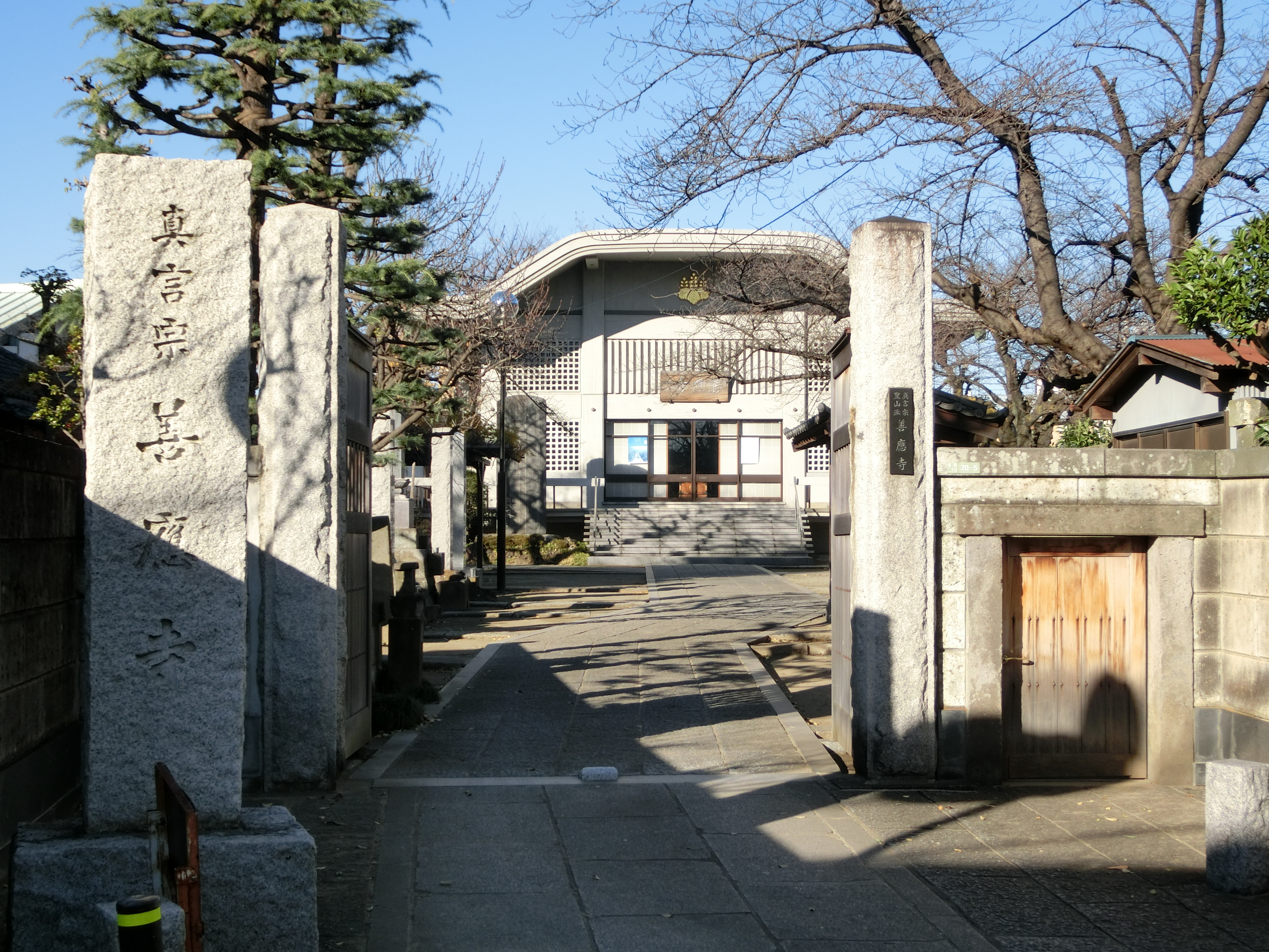 Zenno-ji (Okino, Adachi)